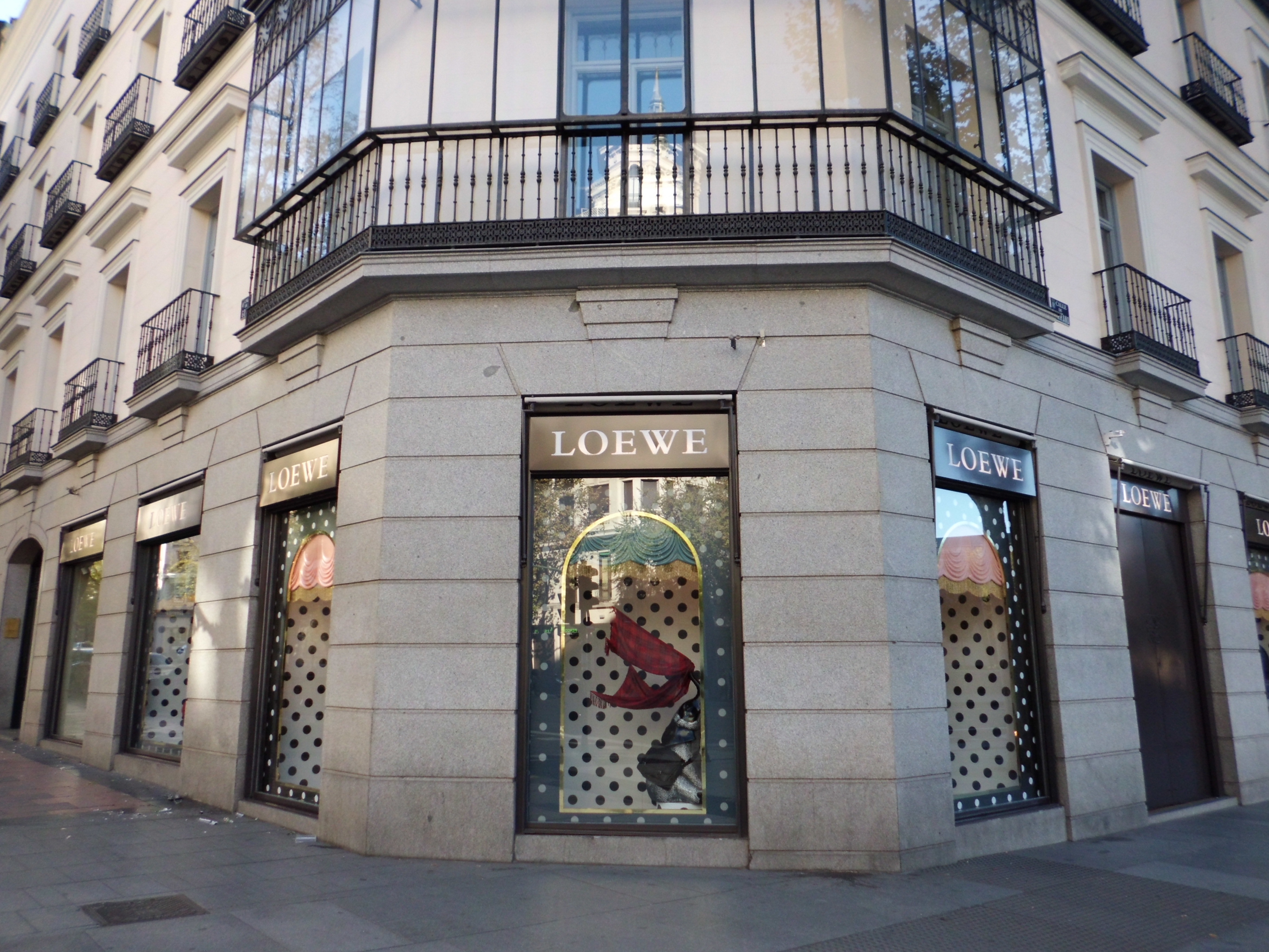 Loewe from Calle de Serrano 34 with Goya. In this place was the Aguilar bookstore and publisher.